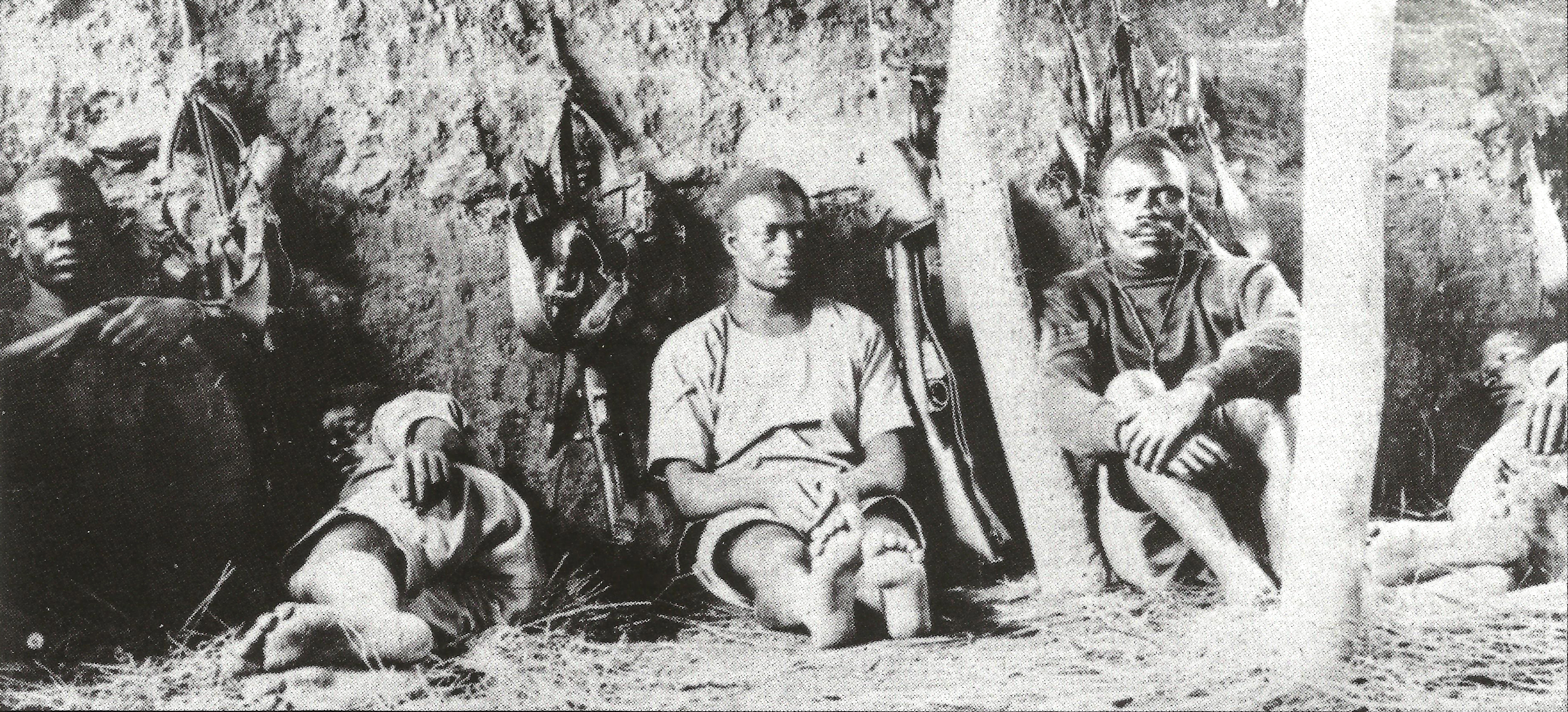 Men of the 1st Battalion, the Rhodesian African Rifles, in Burma, resting in a dugout, 1945.